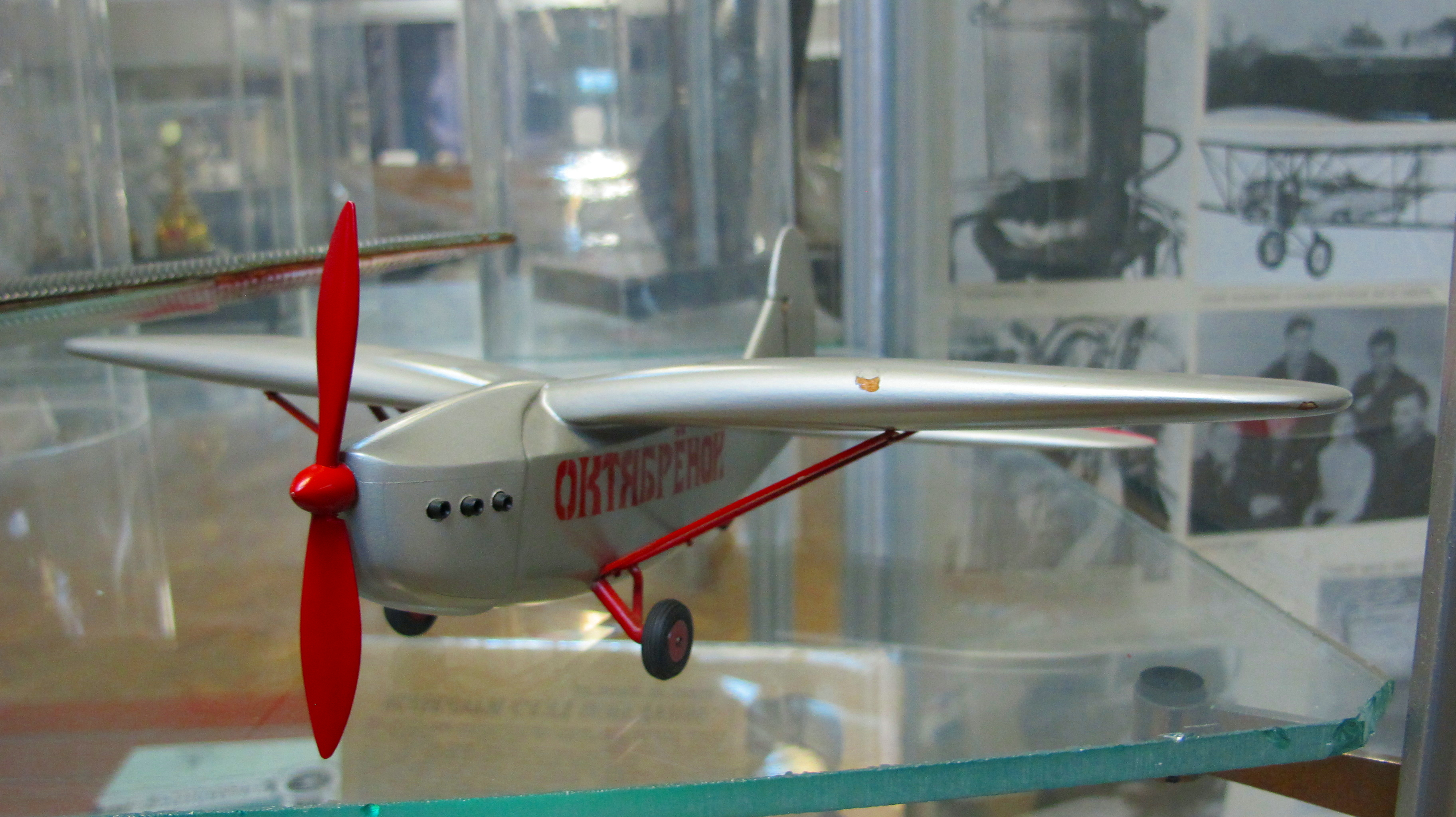 Oktyabryonok MAI aircraft. Museum of Moscow Aviation Institute